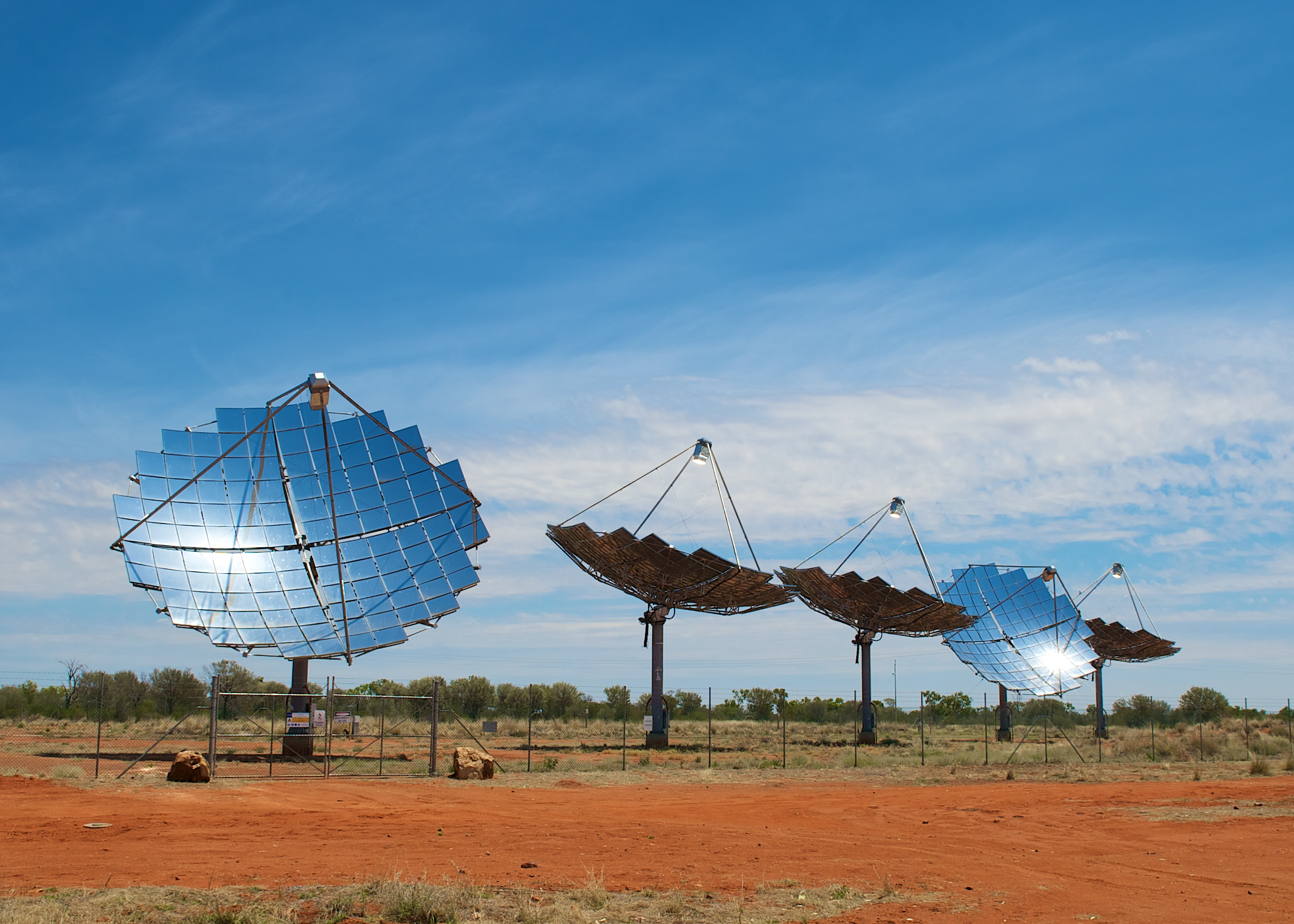 Windorah's Solar Farm dishes taken from the roadside (Diamantina Developmental Road) on a hot summer day